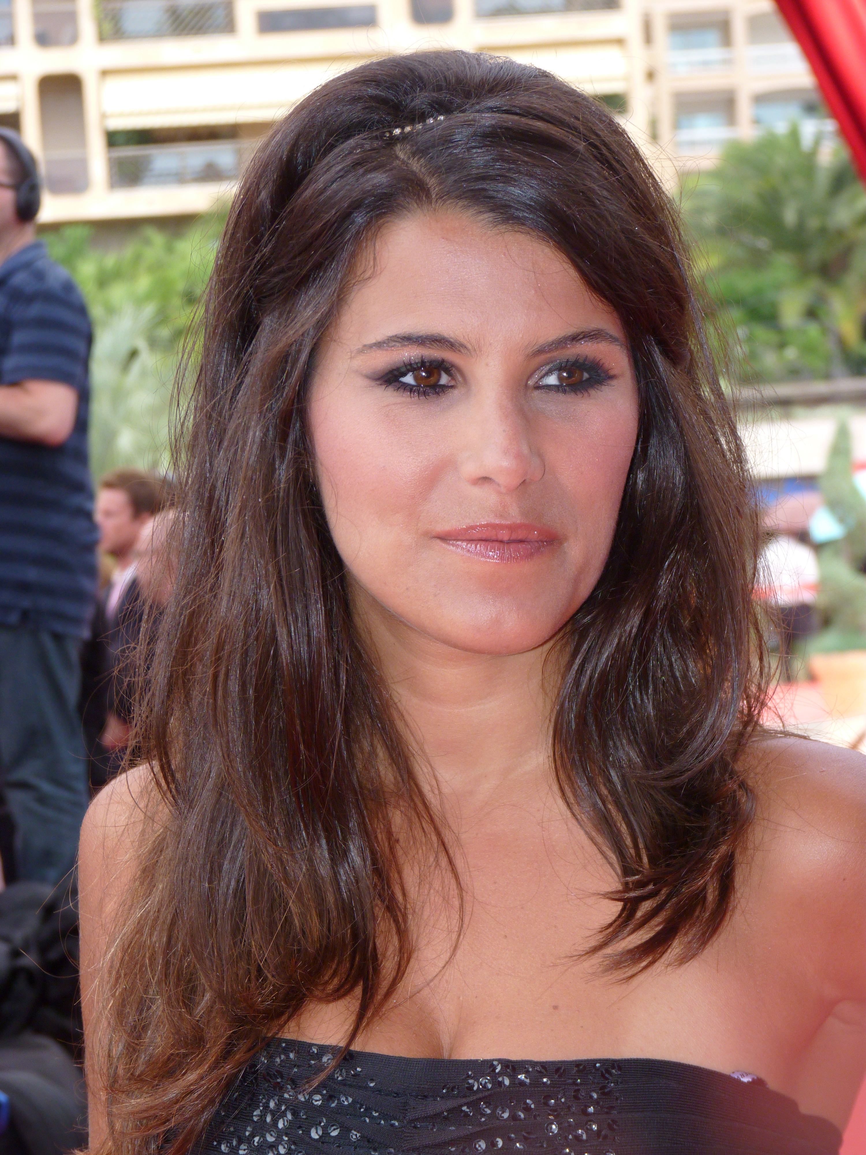 Karine Ferri at the 2012 Monte-Carlo Television Festival.